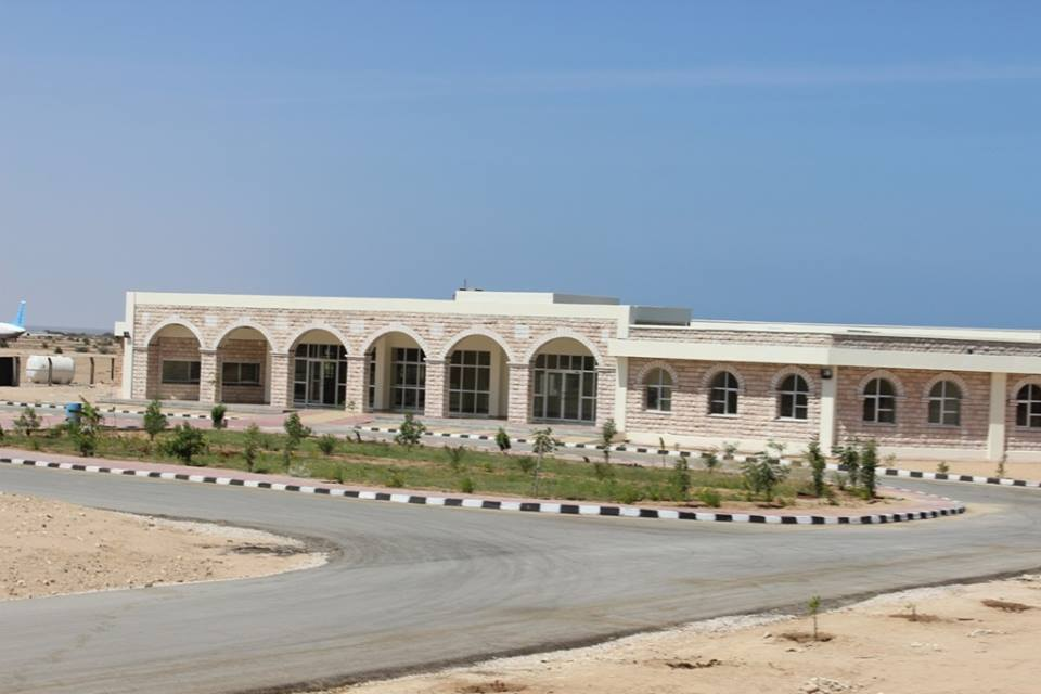 Exterior view of Berbera's airport